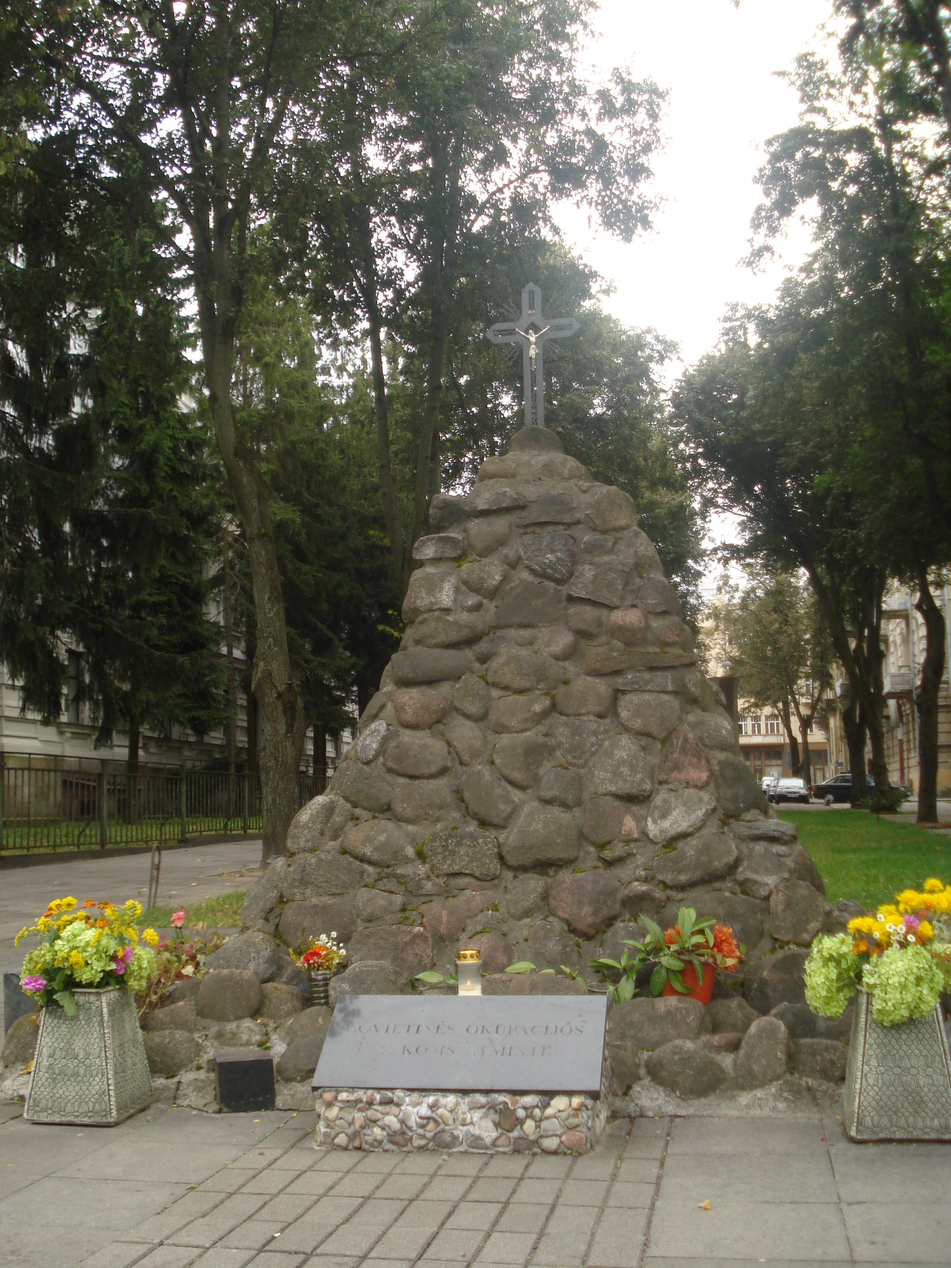 Monument in memory of soviet occupation's victims in Vilnius (Gedimino Avenue).